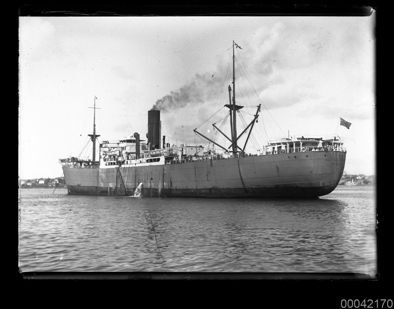 Frederick Wilkinson took this photograph of SS PORT NICHOLSON anchored in Athol Bight (near Bradleys Head), Sydney at 10:10am on Sunday 12 April 1931 aboard a ferry from Taronga Park to Circular Quay. This photograph is part of the F G Wilkinson Photograph Collection, comprising more than 700 glass plate negatives of ships in Sydney Harbour between 1919 and 1936. The collection provides an extensive and well-documented coverage of the changing styles of shipping in the port of Sydney before the gradual decline of the coastal trade, and in a period which was probably the peak reached by commercial shipping in Australia. The backgrounds also reveal the changing face of the city and harbour foreshores. The ANMM undertakes research and accepts public comments that enhance the information we hold about images in our collection. This record has been updated accordingly. Object no. 00042170